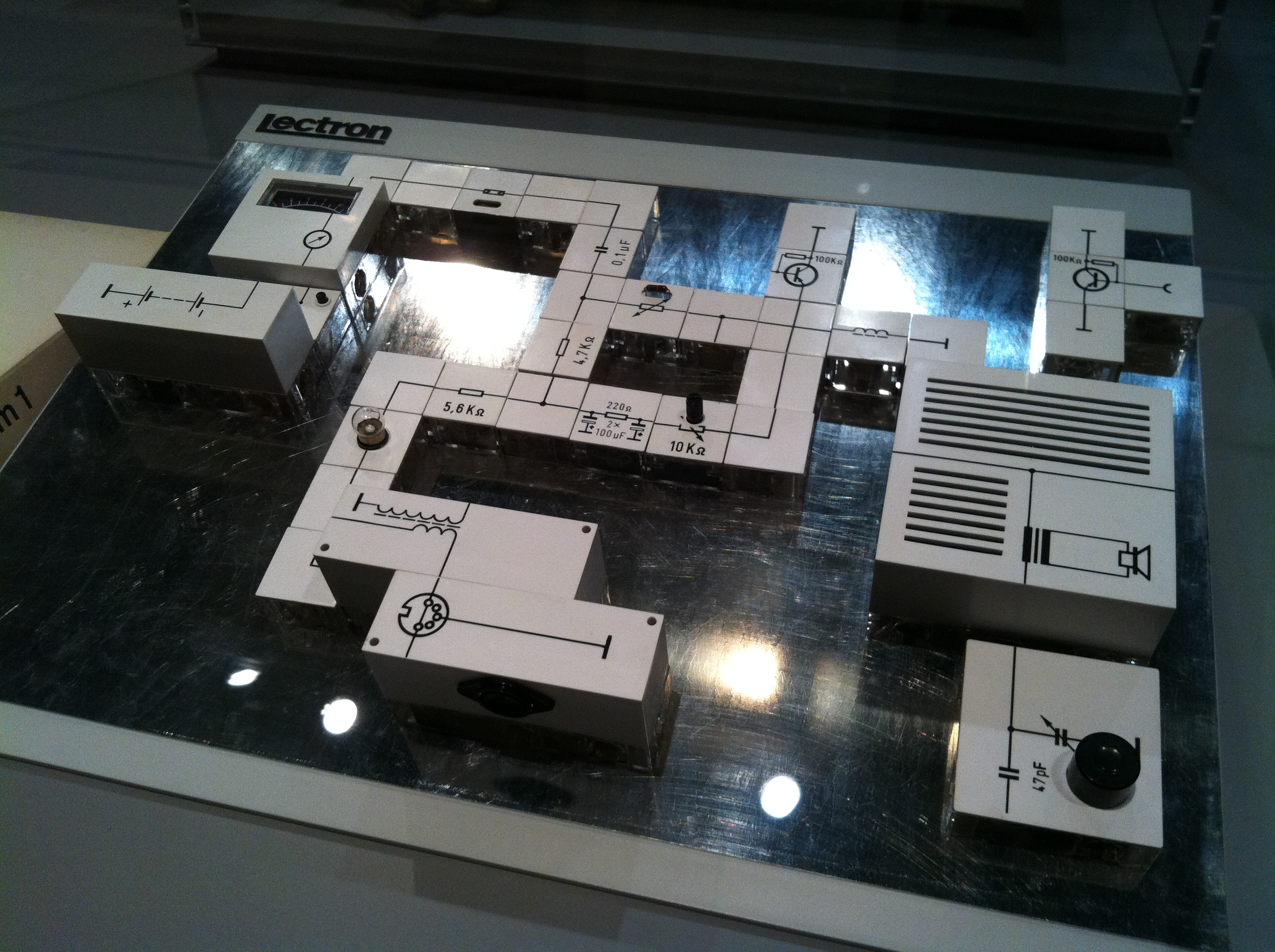 Braun Lectron Setup; Exhibition Systems design : The Ulm school at Museu del Disseny (DHUB) in Barcelona; 21.September 2011 – 20.May 2012 [1]